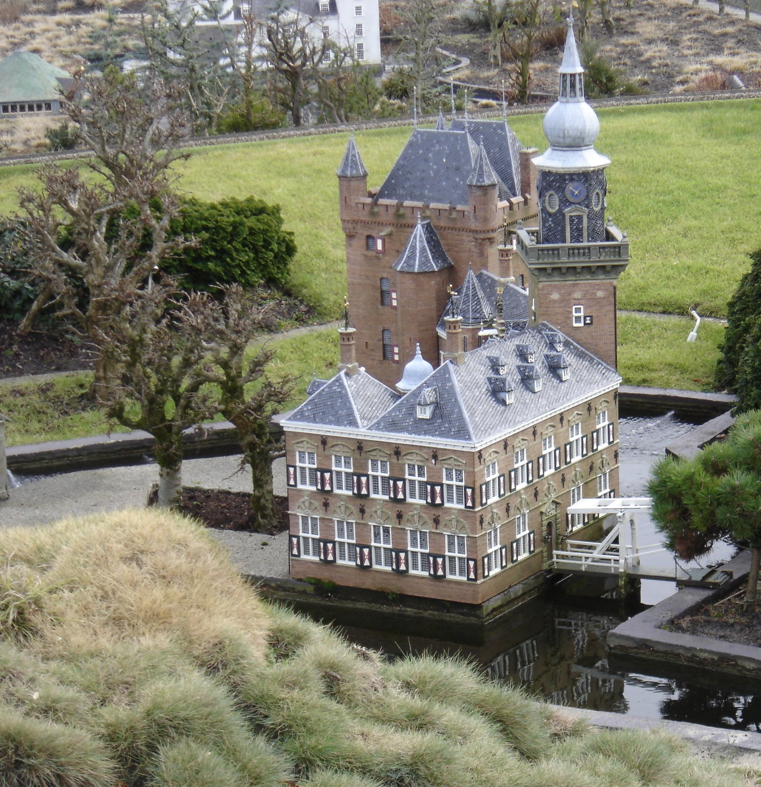 Castle Nijenrode, Madurodam, February 19, 2006